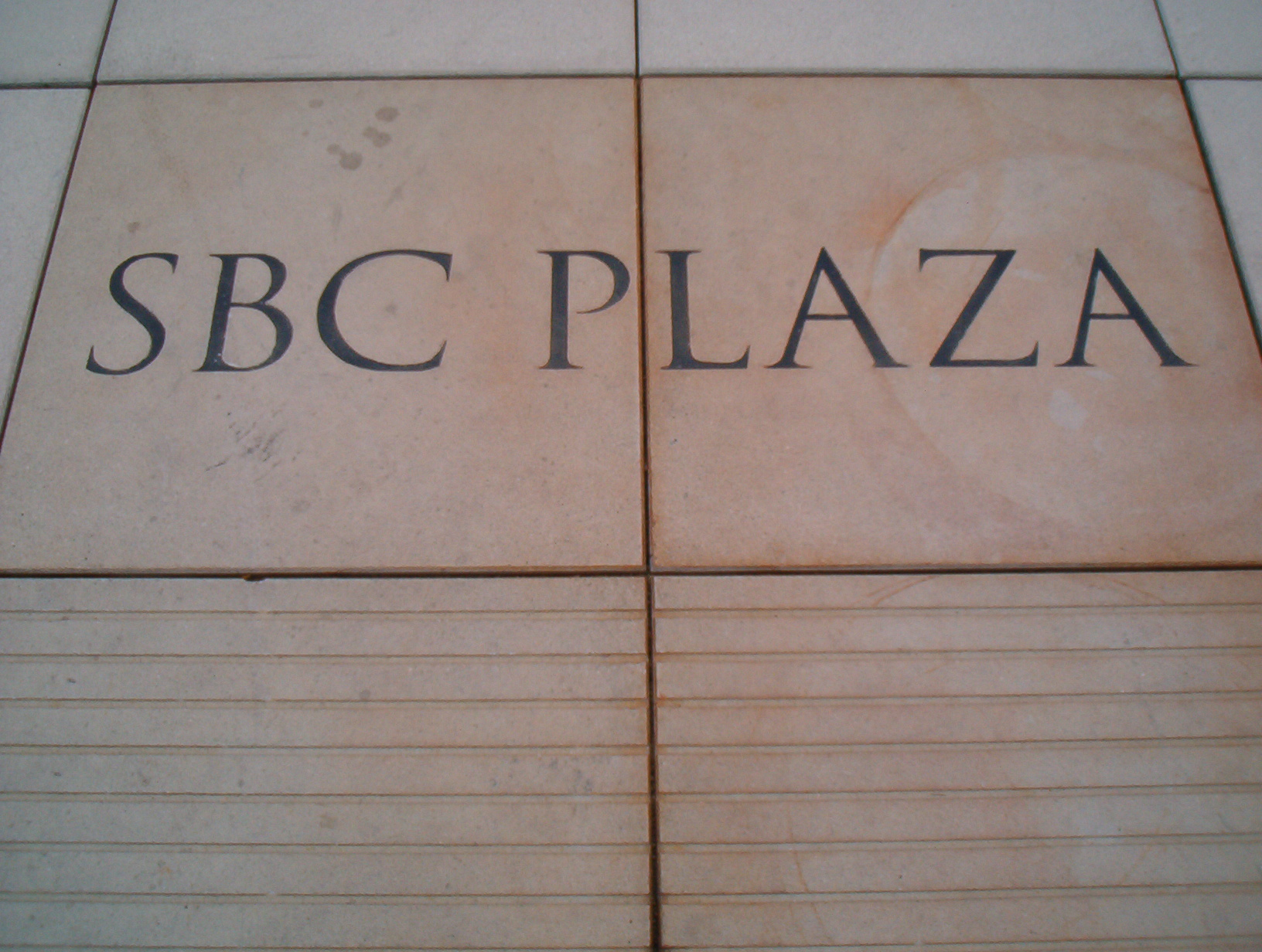 Self Made